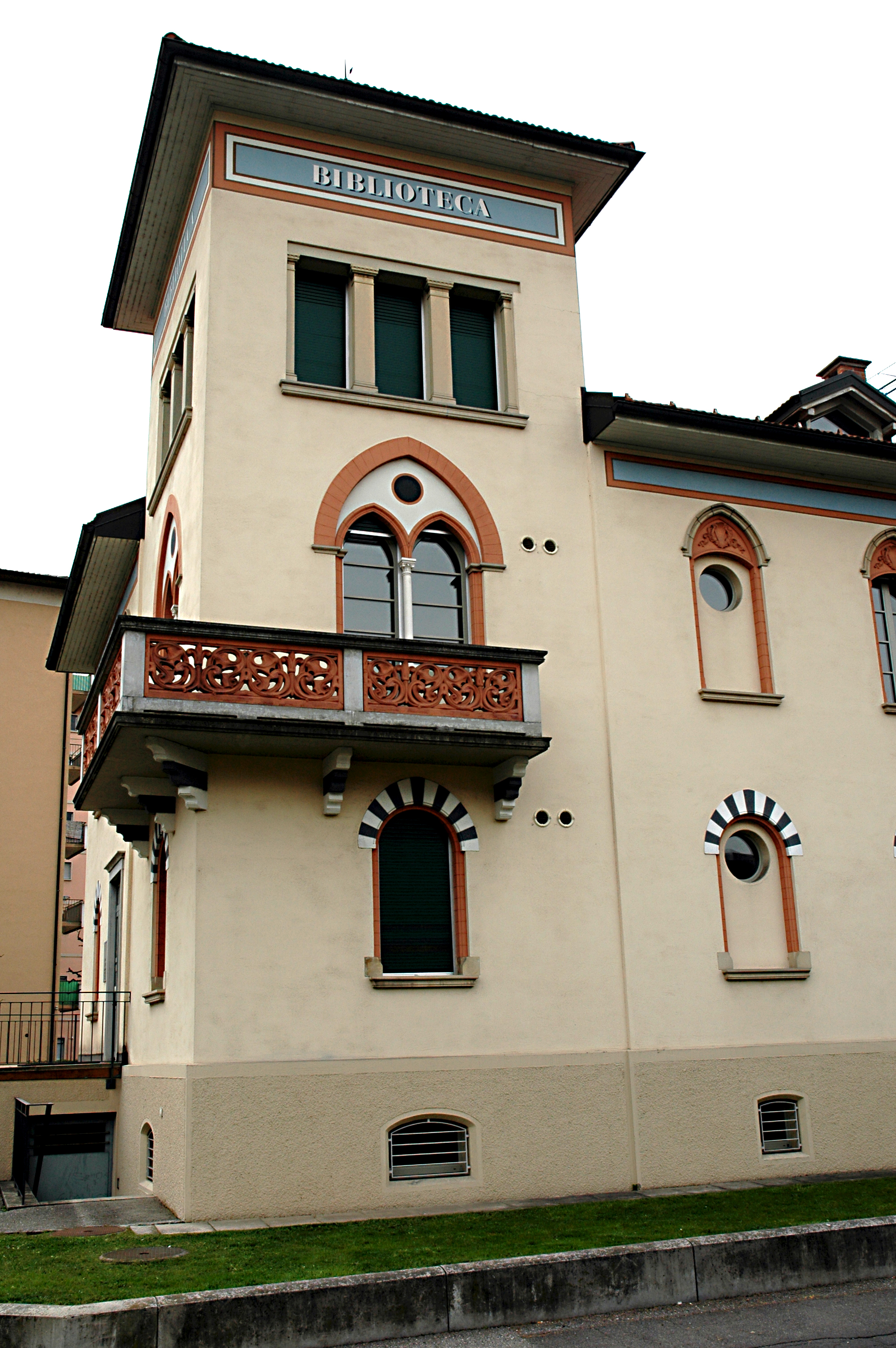 Chiasso - public library